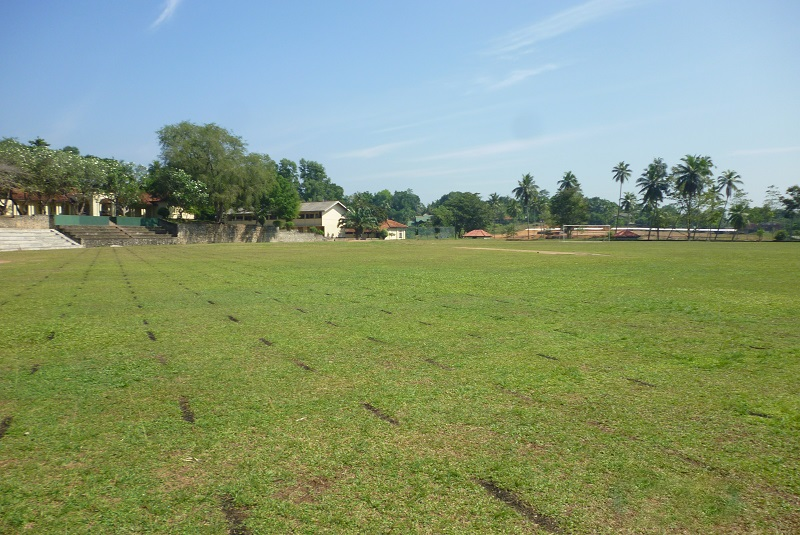 This is a new photo of the Main Play Ground and track.